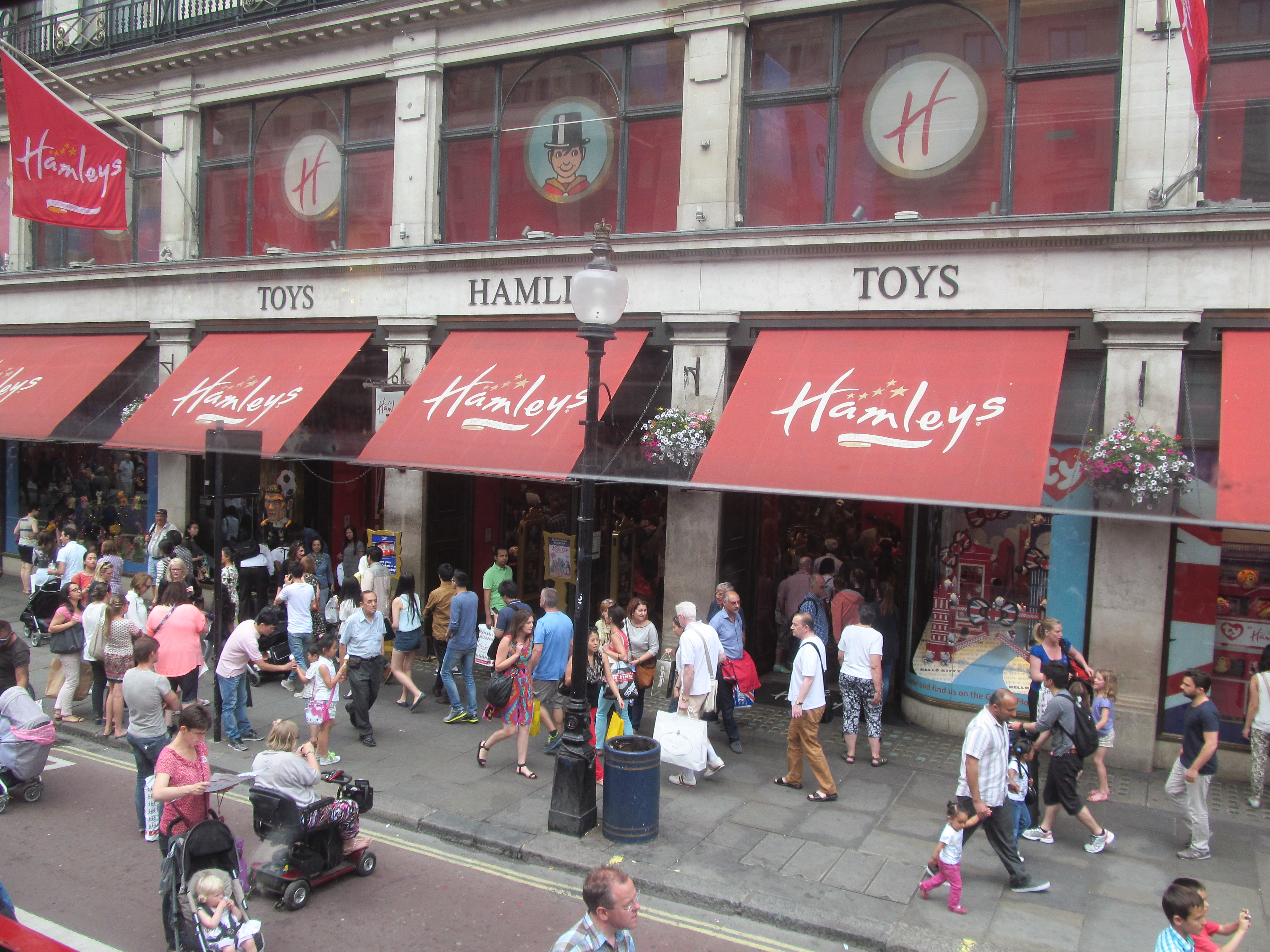 Year of the Bus Cavalcade Regent Street London 2014 142